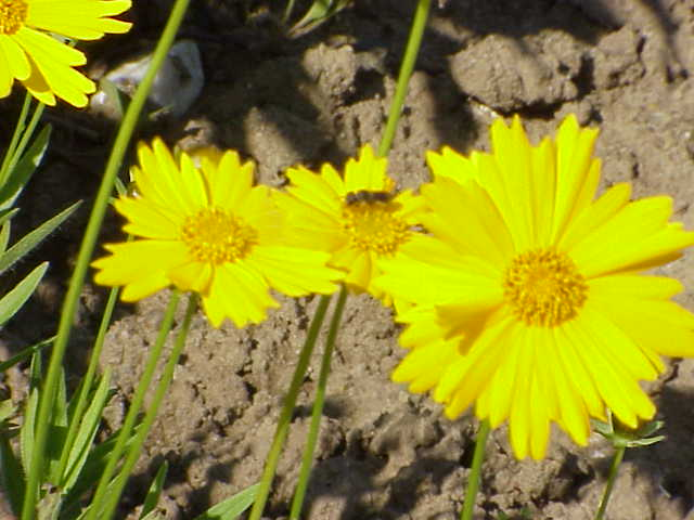 Species: Coreopsis pubescens Family: Compositae Image No. 2